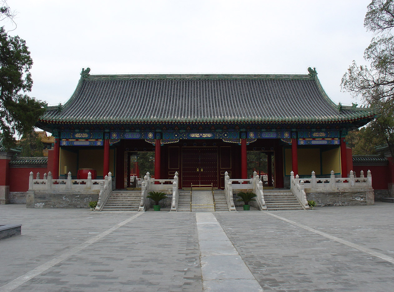 Jingde Gate of the Temple of Emperors of Successive Dynasties, Beijing, China